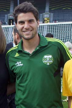 Sal Zizzo of the Portland Timbers